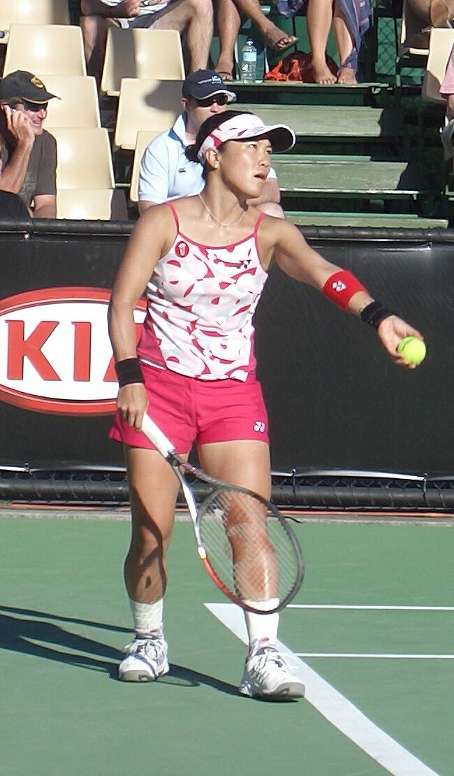 Rika Fujiwara (Japan) in her first round women's doubles match of the 2006 Australian Open. Her partner was Chia-Jung Chuang (Taiwan). They played Maret Ani (Estonia)/Andreea Vanc (Romania). Fujiwara and Chuang lost.